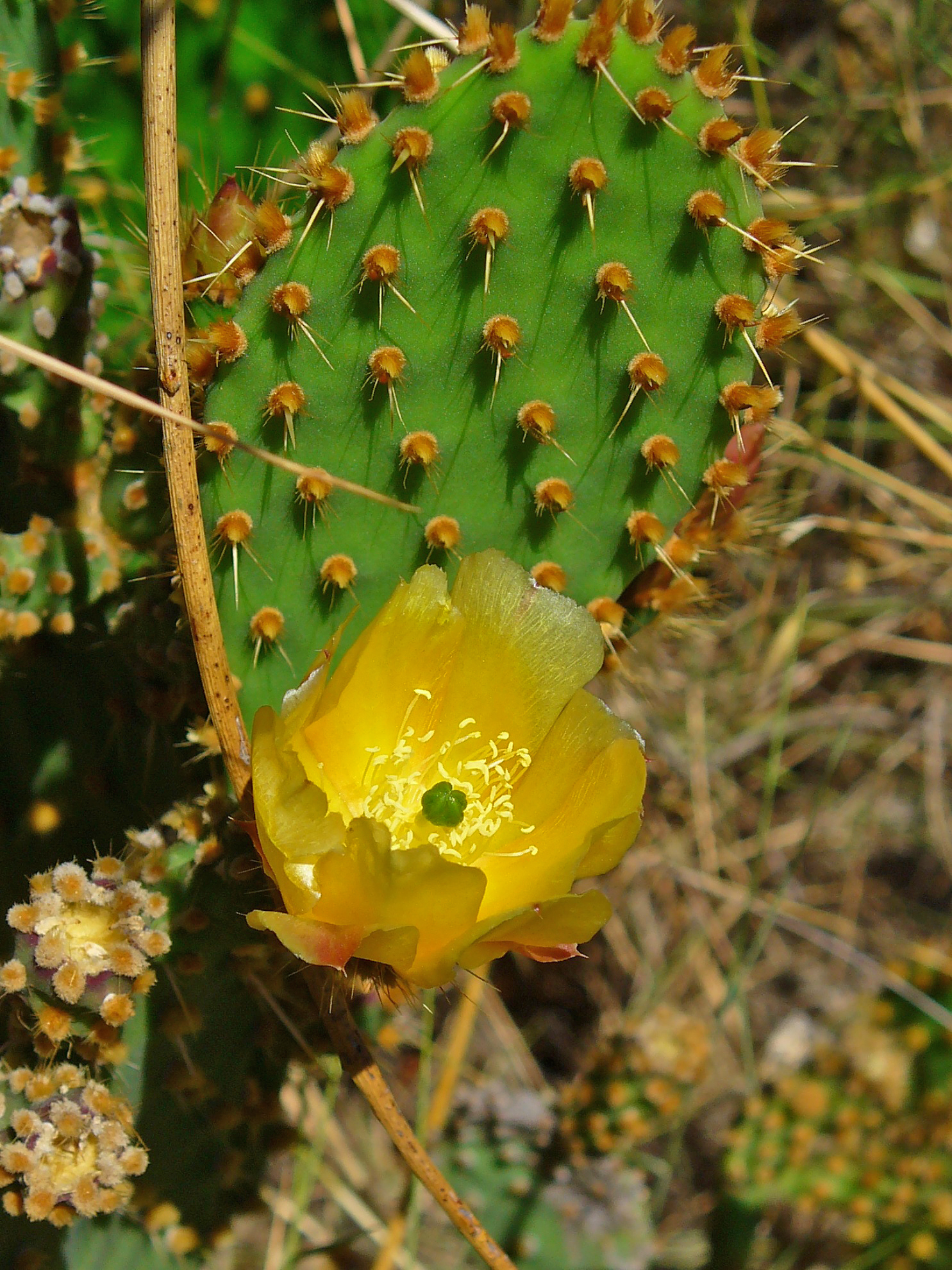 Opuntia engelmannii, Cactaceae, Engelmann prickly pear, flower. Ille sur Têt, France.